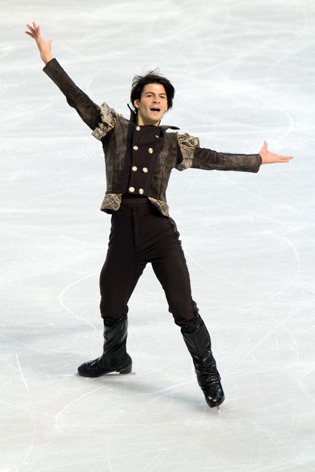 Stéphane Lambiel at the 2010 European Figure Skating Championships.